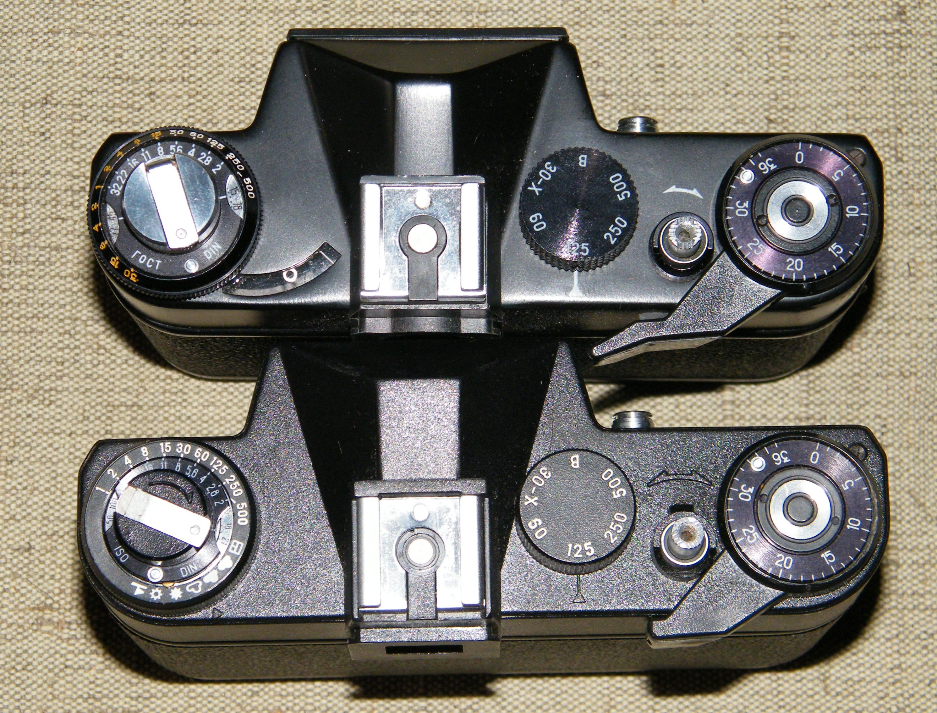 Зенит-ЕТ с экспонометром и без него